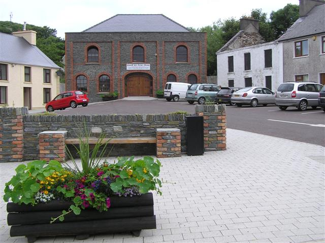 The Square, Clonmany In the background is Good as New store